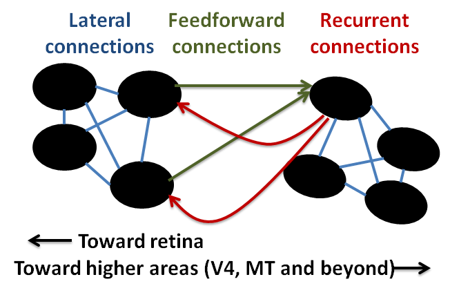 Recurrent connections with direction of ventral/dorsal stream